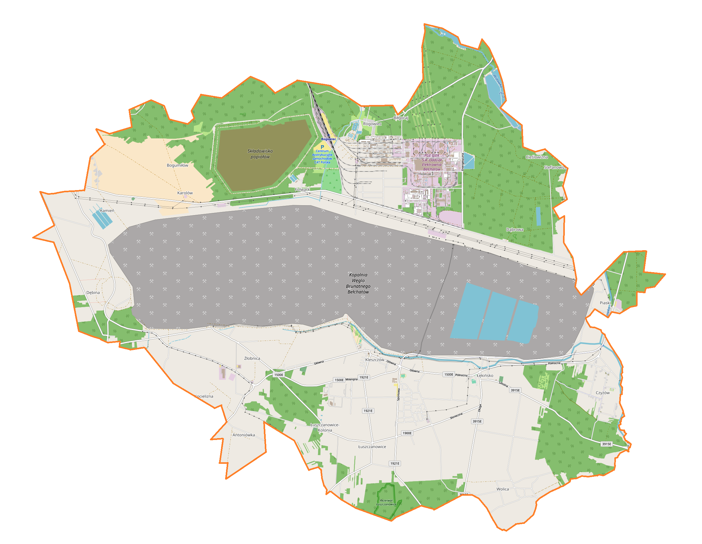 Location map